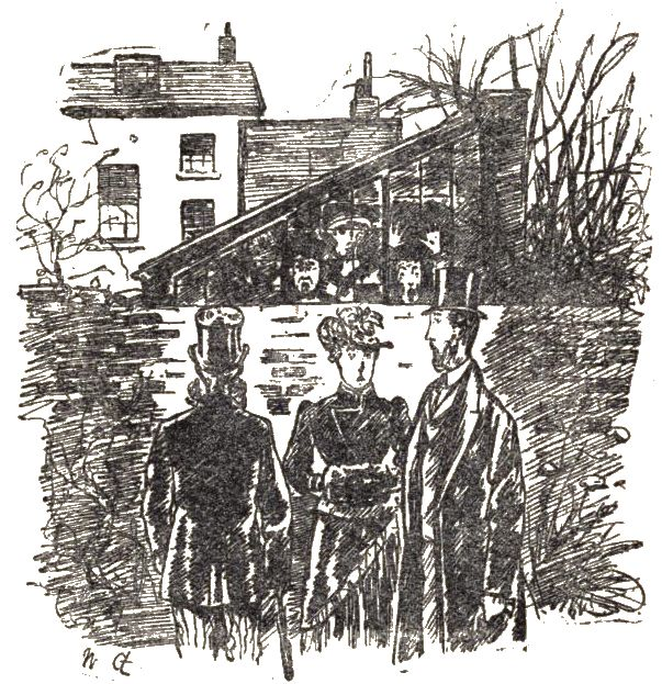 jpg of image on print page 187 of File:Diary of a Nobody.djvu